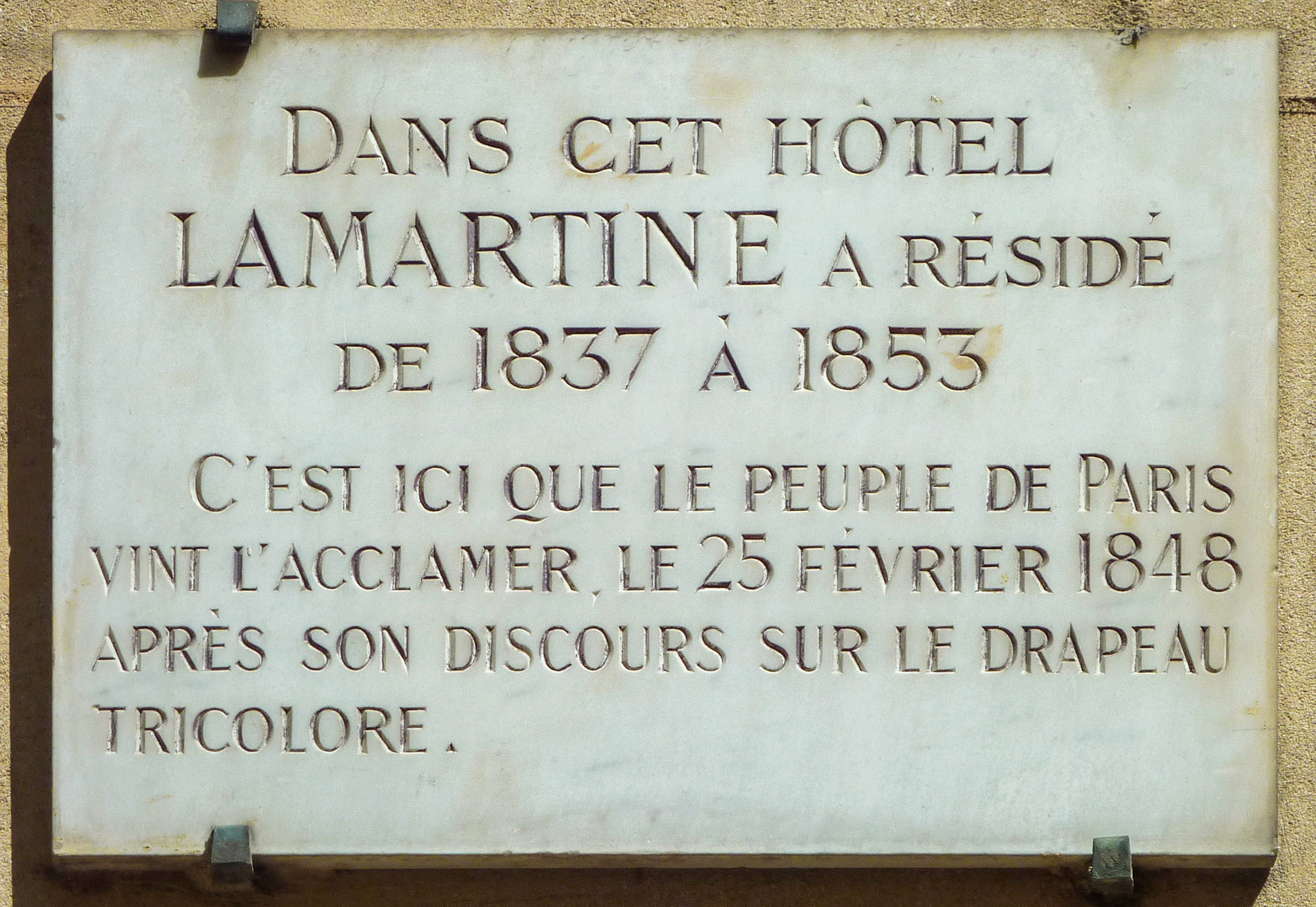 Read more about this man here